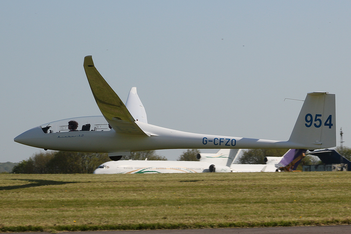 G-CFZO Schempp-Hirth Nimbus 3DT @ Lasham 05/05/2018